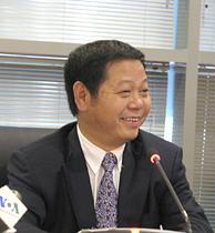 Xu Zongheng